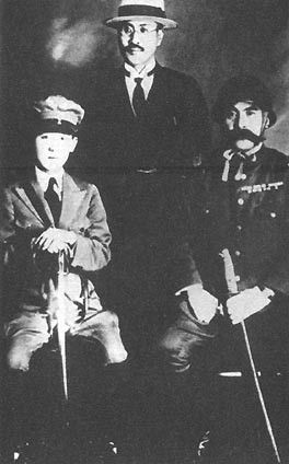 A portrait of Yoshiko Kawashima(L) Naniwa Kawashima(M) Ryūkichi Tanaka(R), Japan, 1933.